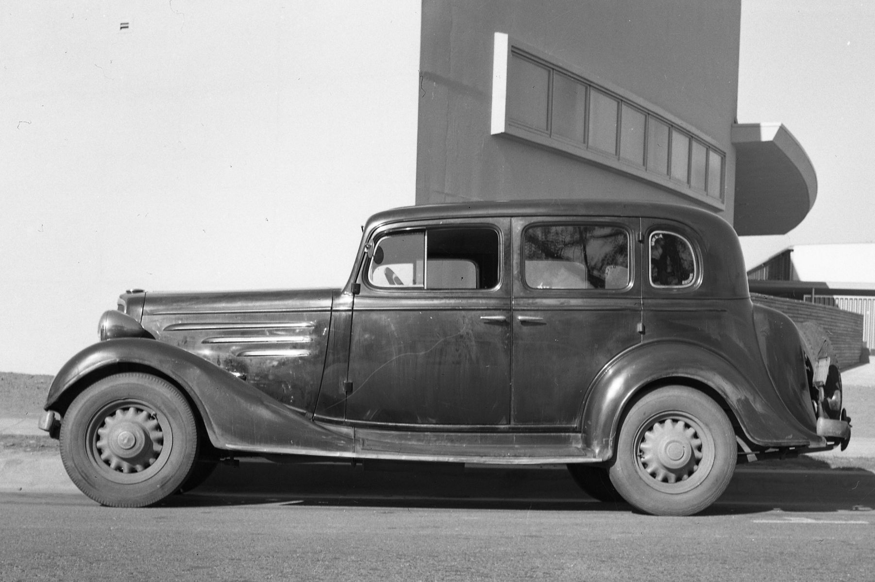 Side view of 1934 Master Deluxe Sedan.